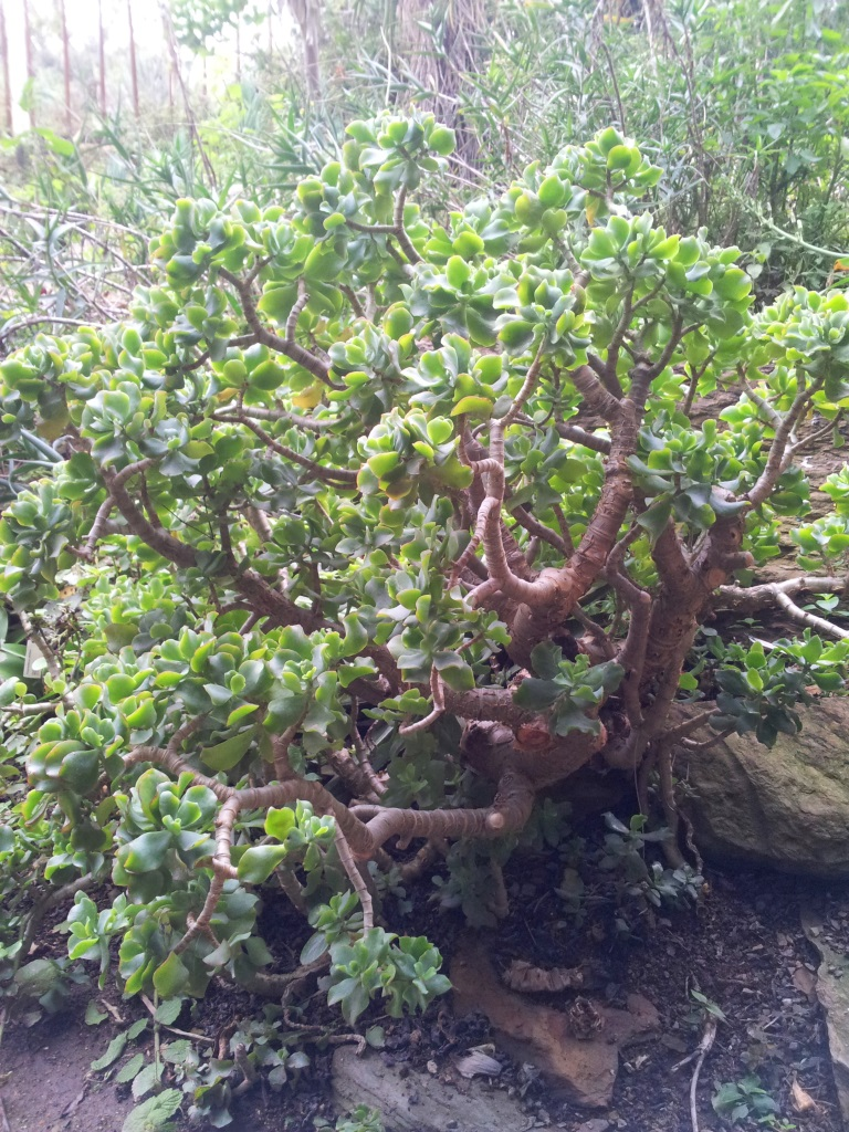 Crassula arborescens subsp undulatifolia - Kirstenbosch gardens